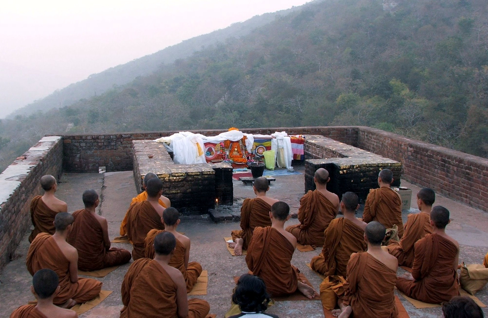 Buddhist monks meditating on Vulture Peak, Rajgir, India. The small structure (small room) designates the place where Buddha used to stay when living on Vulture Peak.